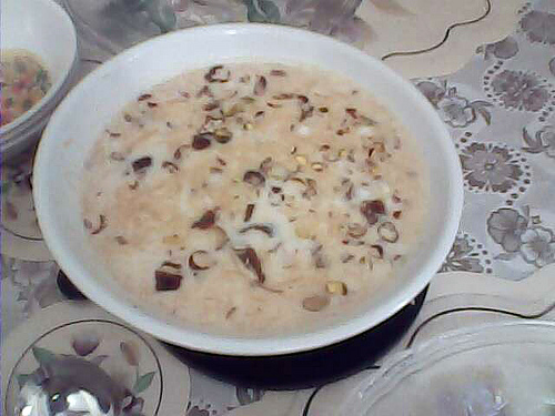 Adnan Inviting Friends At ' Eid - Al - Adha ' Dinner. And The Menu Is ' Biryani ( Rice & Meat Dish ), Raita ( Condiment Based On Yogurt ) And ( Sheer Khurma ; Sweet Dish / Vermicelli ). Hurry Up ..... Before The Dinner Is Over ! About Eid - Al - Adha = ( عيد الأضحى ) " Festival Of Sacrifice " Or " Greater Eid " Is A Holiday Celebrated By Muslims Worldwide. Eid - Al - Adha Annually Falls On The 10th Day Of The Month Of Dhul Hijja ( ذو الحجة ) Of The Lunar Islamic Calendar. The Festivities Last For Three Days. Eid - Al - Adha Occurs The Day After The Pilgrims Conducting Hajj ( Mecca, Saudi Arabia). = = = = = = = = = = = = = = = = = = = = Email Adnan Asim = Contact Adnan Asim At Face Book = = = = = = = = = = = = = = = = = = = = = Dated = Monday, 30 November 2009